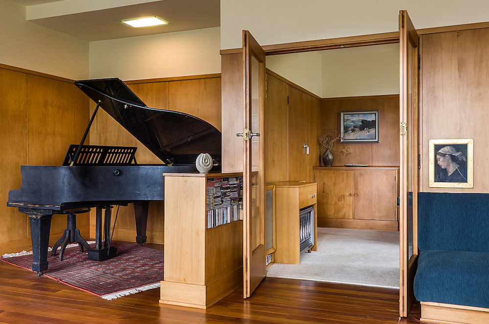 This is image is shot from the inbuilt seats in the north facing lounge. The perspective looks across the lounge, into the dining area, into the piano nobile with lowered ceiling which is separated by a small inbuilt library. (Original condition. Photographed by P. McCredie, with permission of the commissioners daughter, owner-occupant, Lucy Halberstam, in Karori, 2016.)